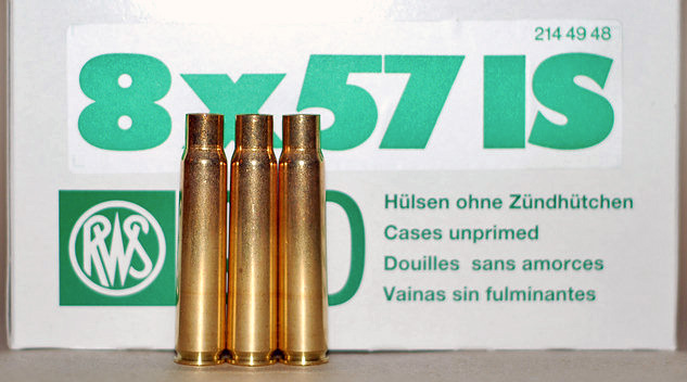 8x57mm IS unprimed cartridge cases with the packaging box of the ammunition manufacturer RWS in the background. The ammunition manufacturer RWS is based in Fürth, Germany and part of RUAG Ammotec, which is a subsidiary of the Swiss RUAG Group.